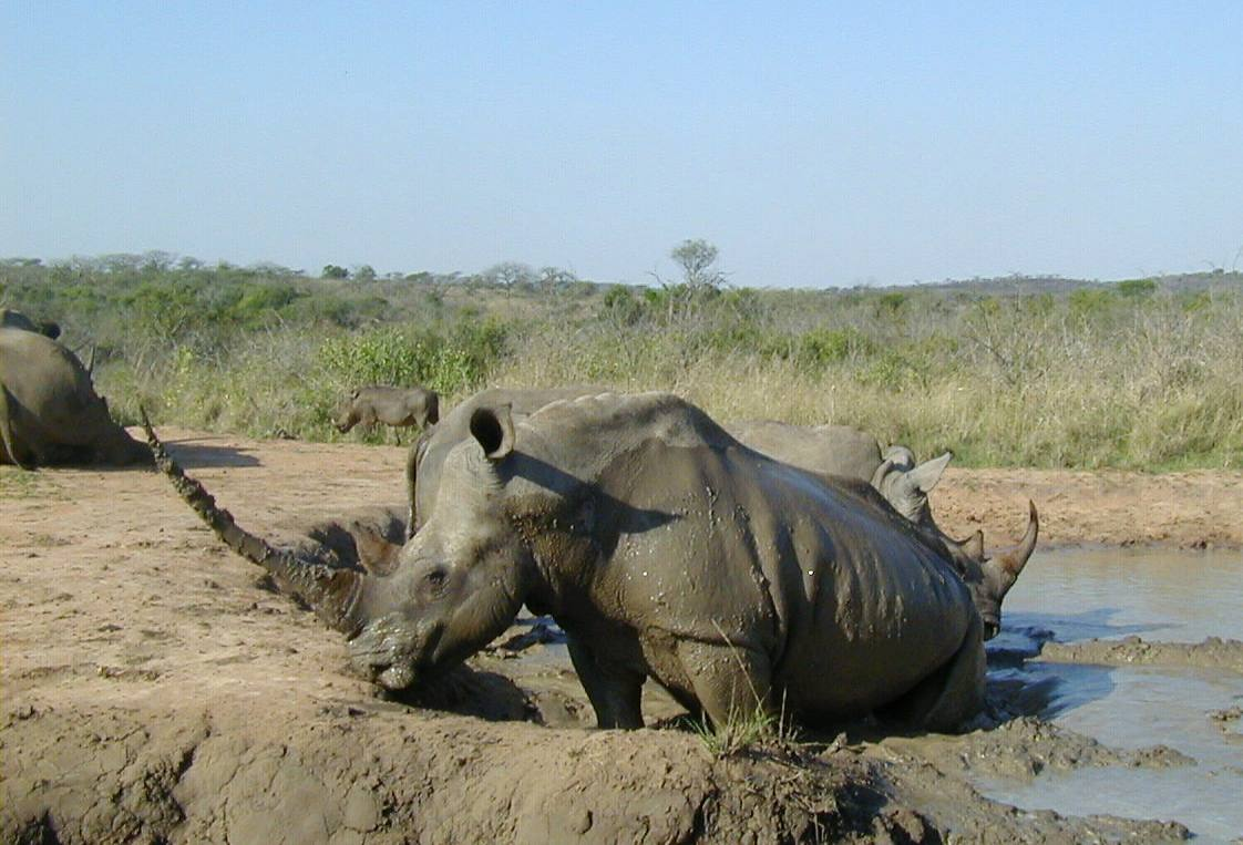 White rhinoceros in Hluhluwe-Umfolozi Park, Zululand, South Africa.